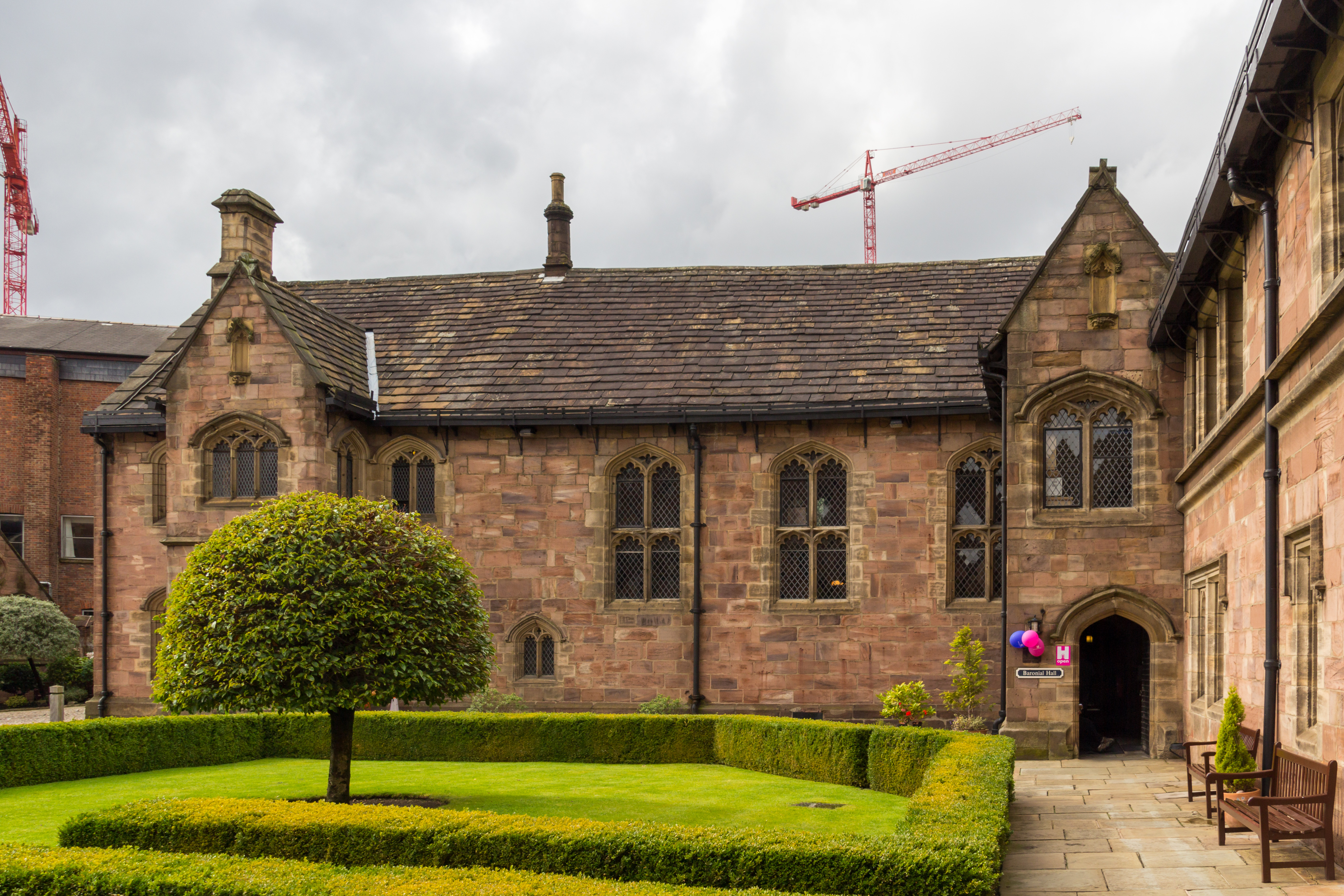 Chetham's Library, Manchester, United Kingdom